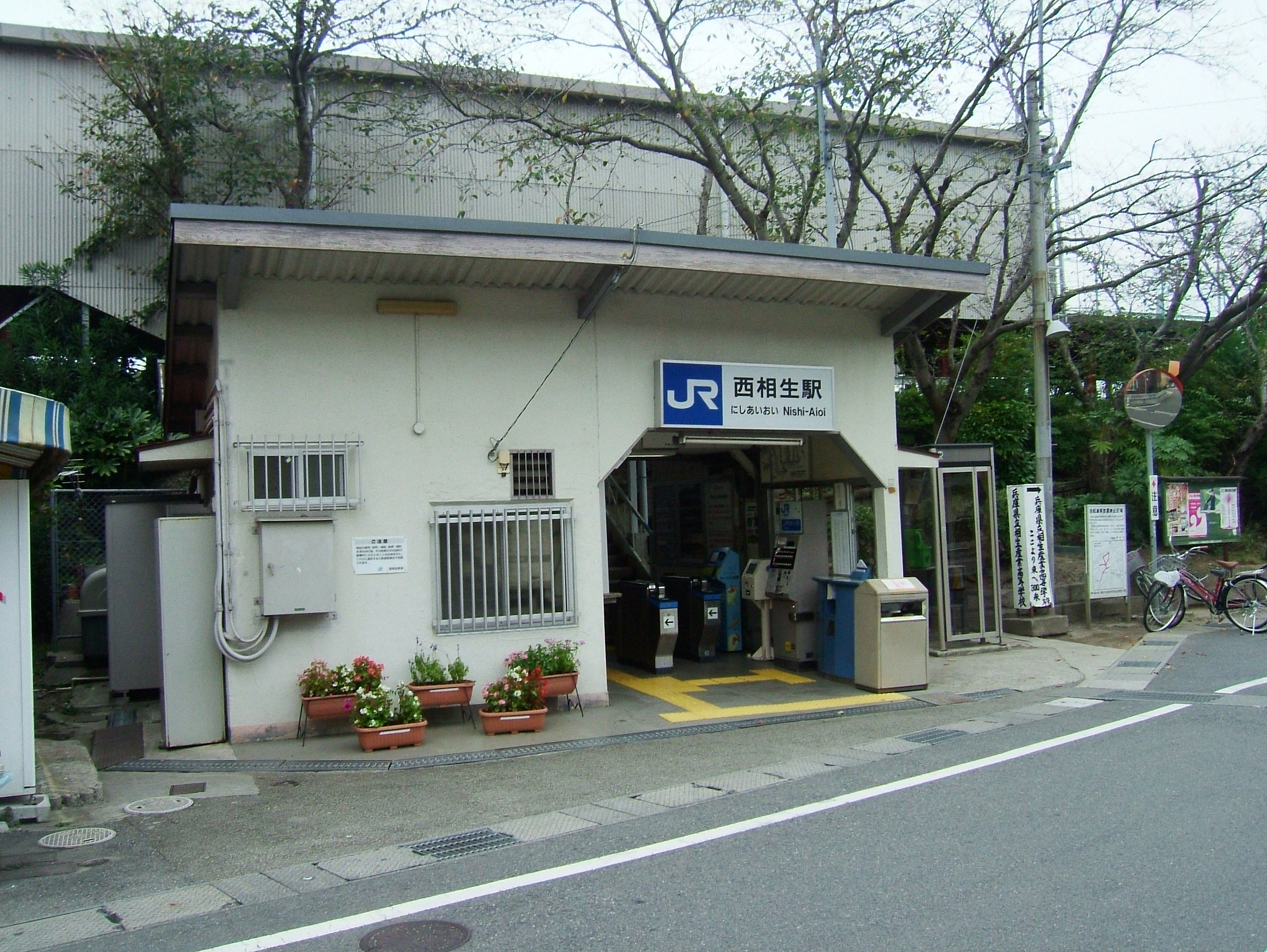 Nishi-Aioi-station, JR Ako-line